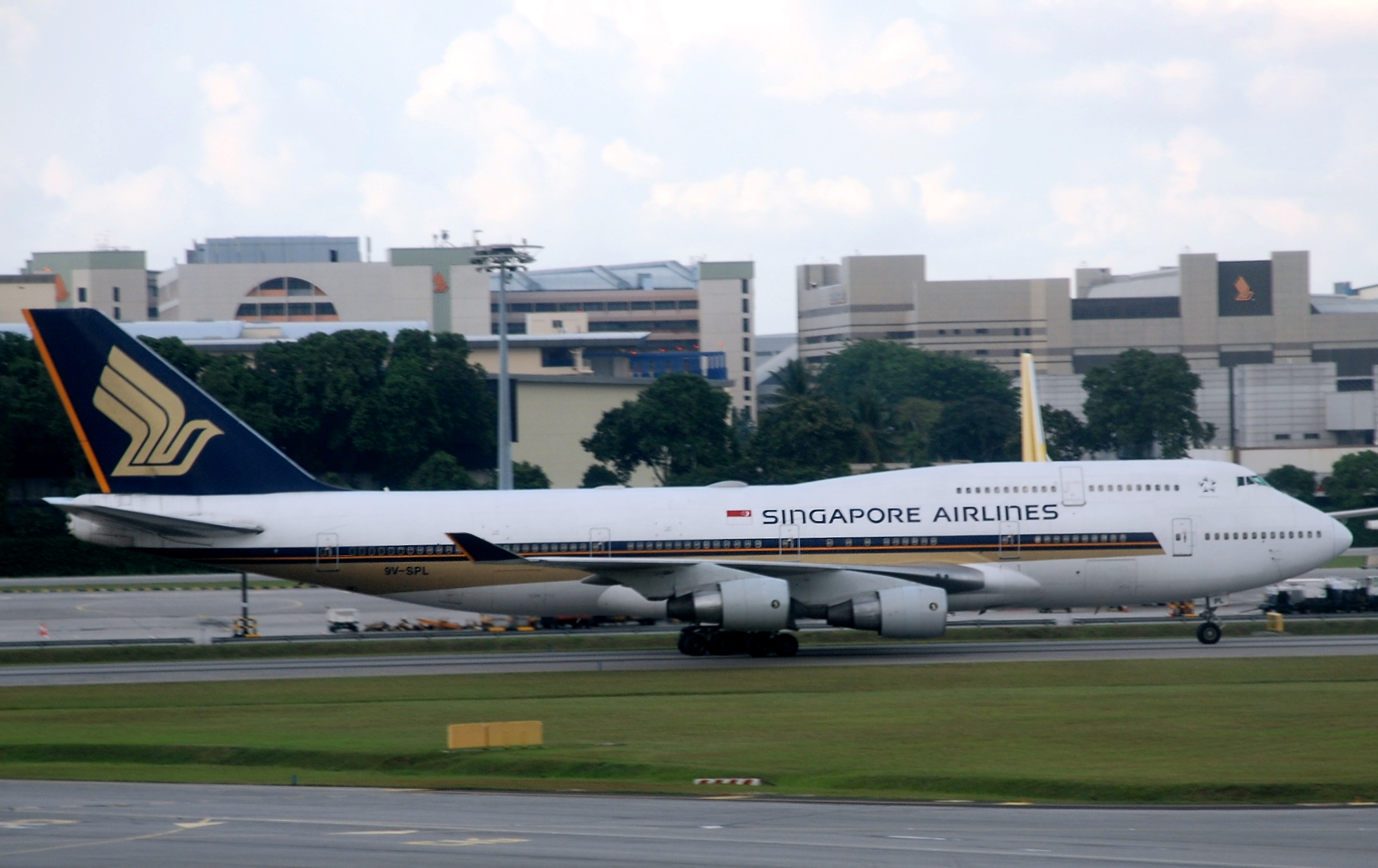 Singapore Airlines Boeing 747-400 (9V-SPL) at Singapore Changi Airport. (Other information: This plane was once painted in the "Tropical" livery which was used to promote the new cabin interiors in the late 1990s. However, after the Flight 6 crash, the plane was painted back in normal SIA colours.)